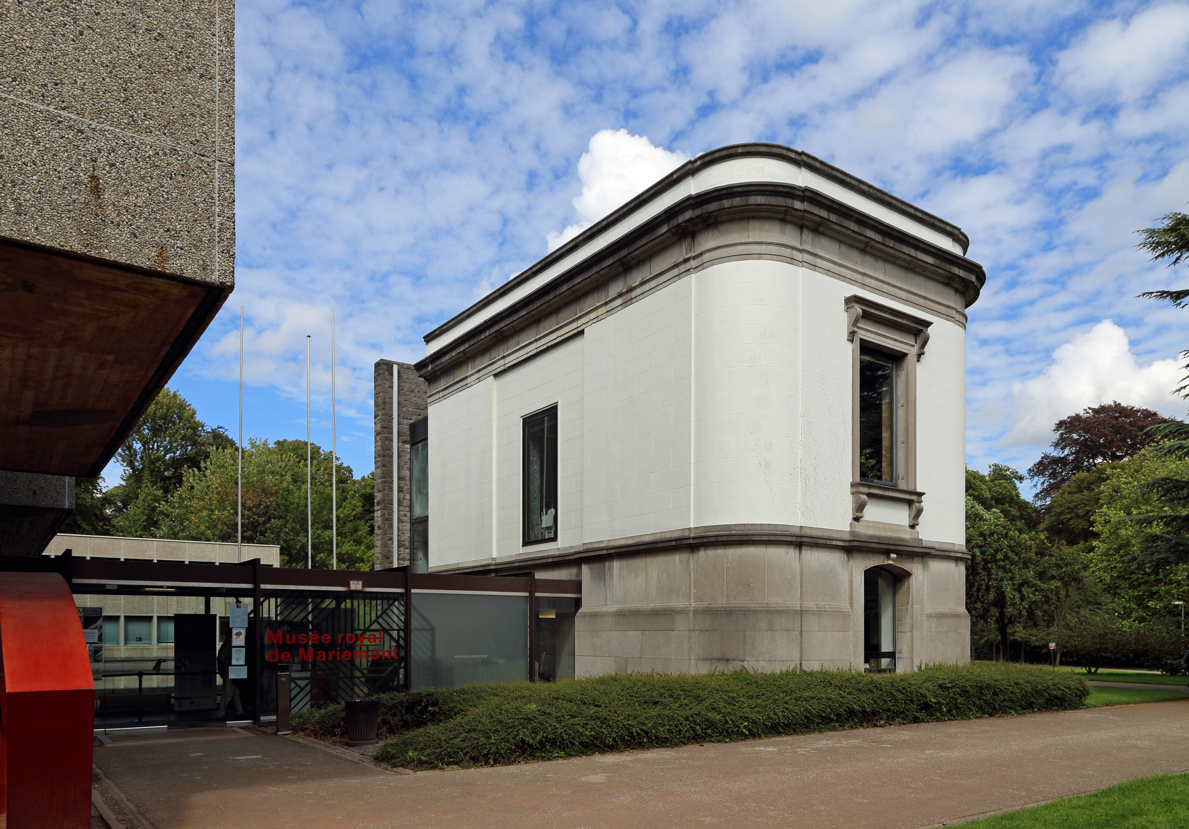 Morlanwelz (Belgium): Royal Museum of Mariemont - entrance of the museum